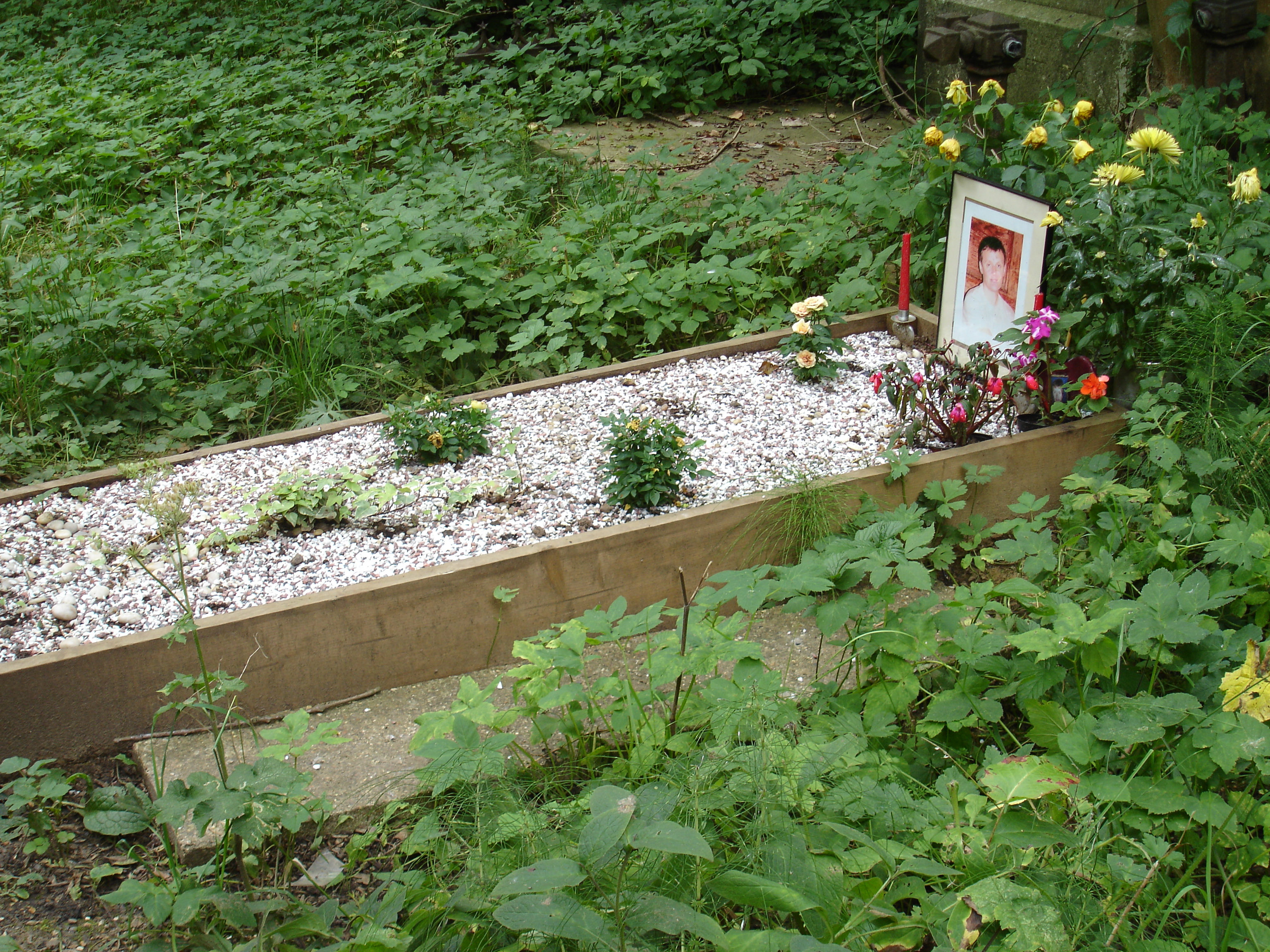 Photograph of the grave of Alexander Litvinenko, Highgate Cemetery, London, United Kingdom